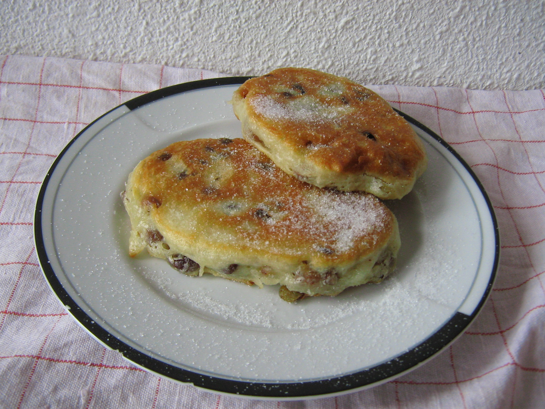 own work